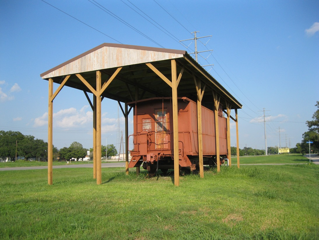 Photo shows a caboose at Farm to Market Road 102 and Branch Street in Wharton, Texas. It is located along the old Cane Belt Railroad (1898-1948) and ATSF (1948-1990s) right-of-way. The view is toward the east.